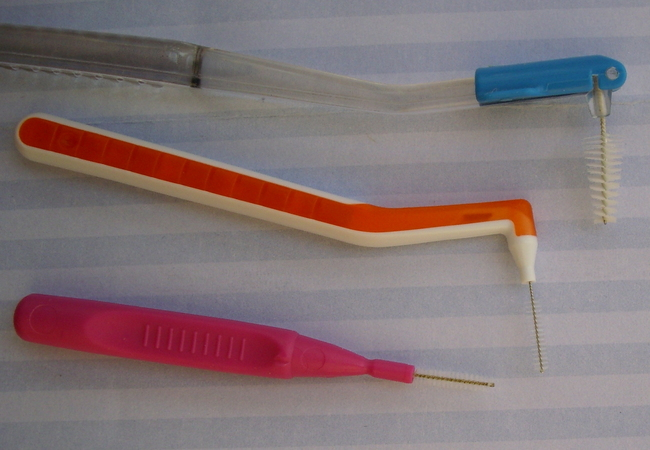 Set of interdental brushes.